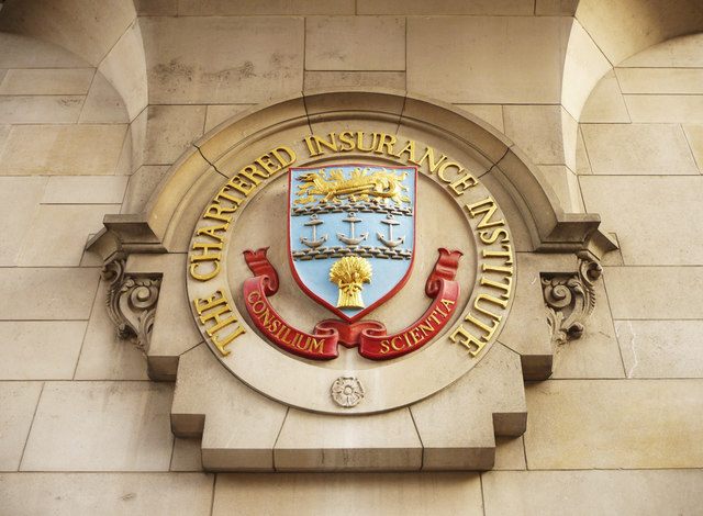 Coat of Arms, Chartered Insurance Institute, London EC2 The coat of arms is on the wall of the building of the Chartered Insurance Institute in Aldermanbury.